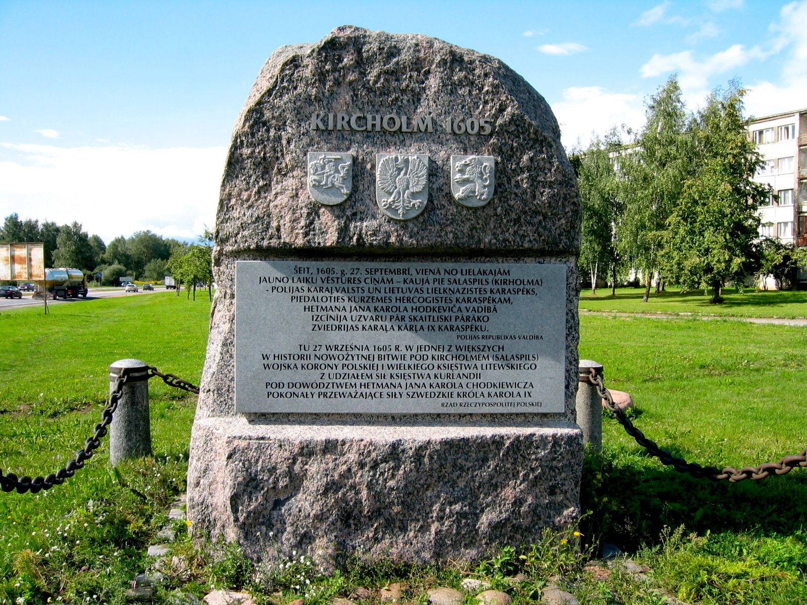 Obelisk bitwy pod Kircholmem, Kircholm (Salaspils), Łotwa/The Battle of Kircholm monument at Salaspils, Latvia